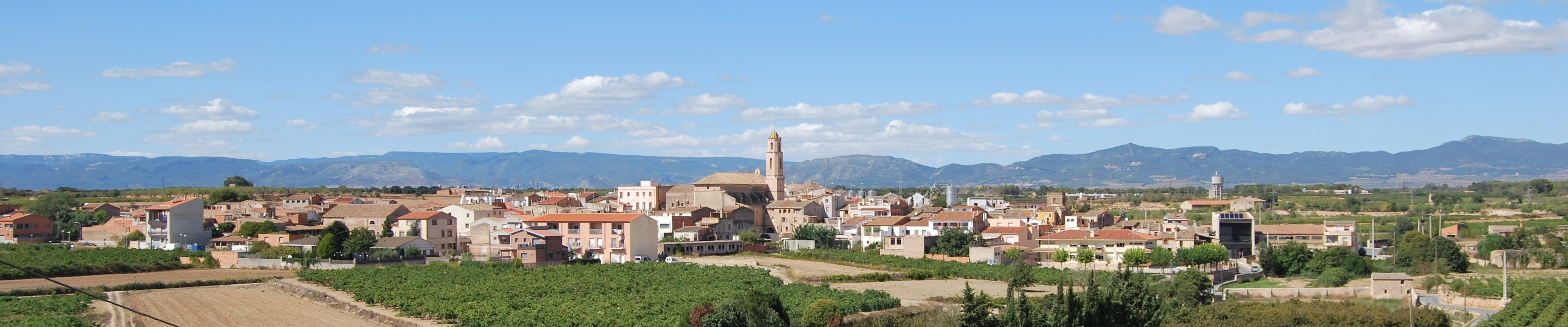 General view of Brafim- taken from loreto chapel